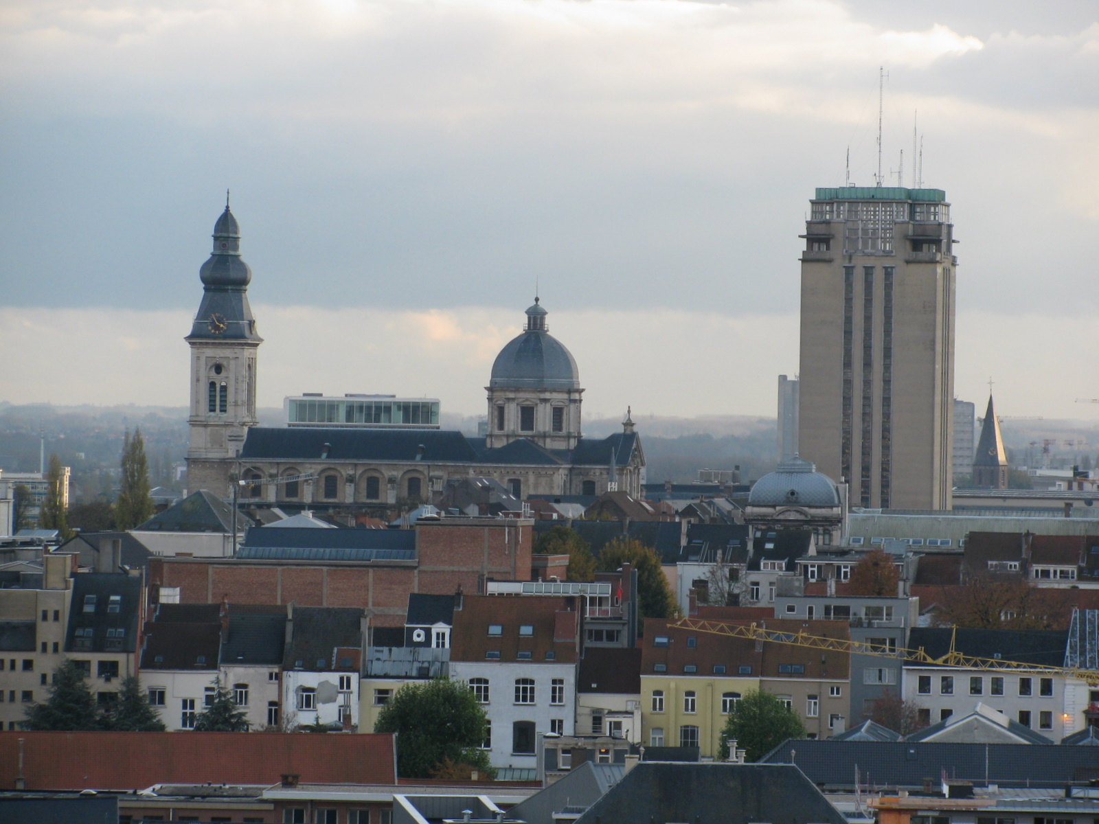 Views from Belfry of Ghent